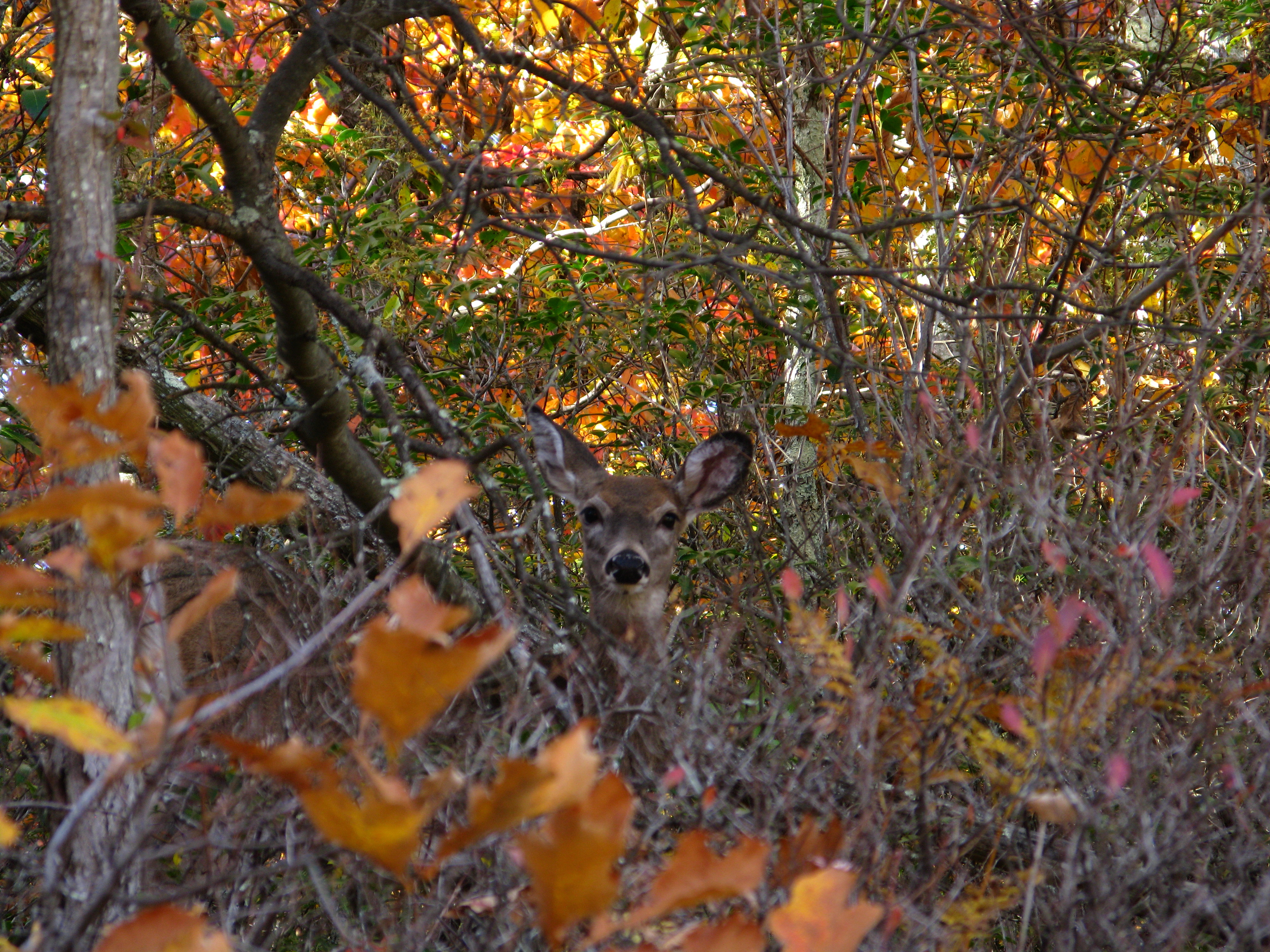 Deer looking through the Brush